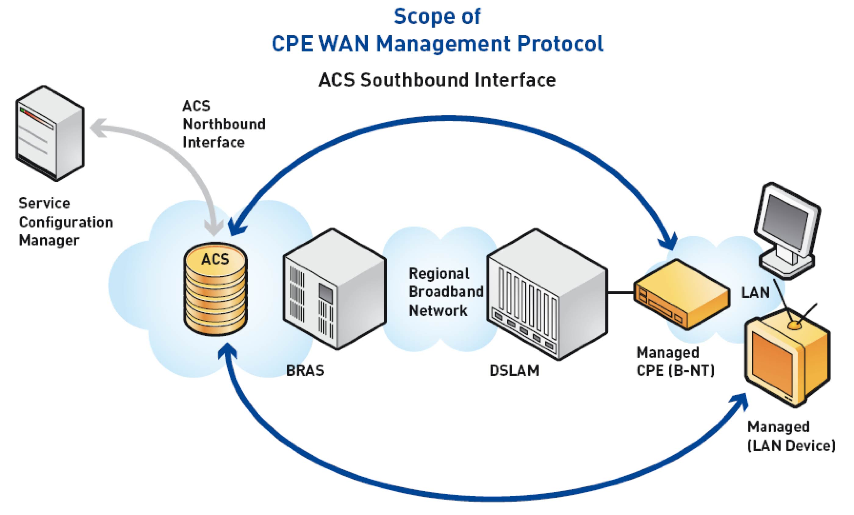 another one pic